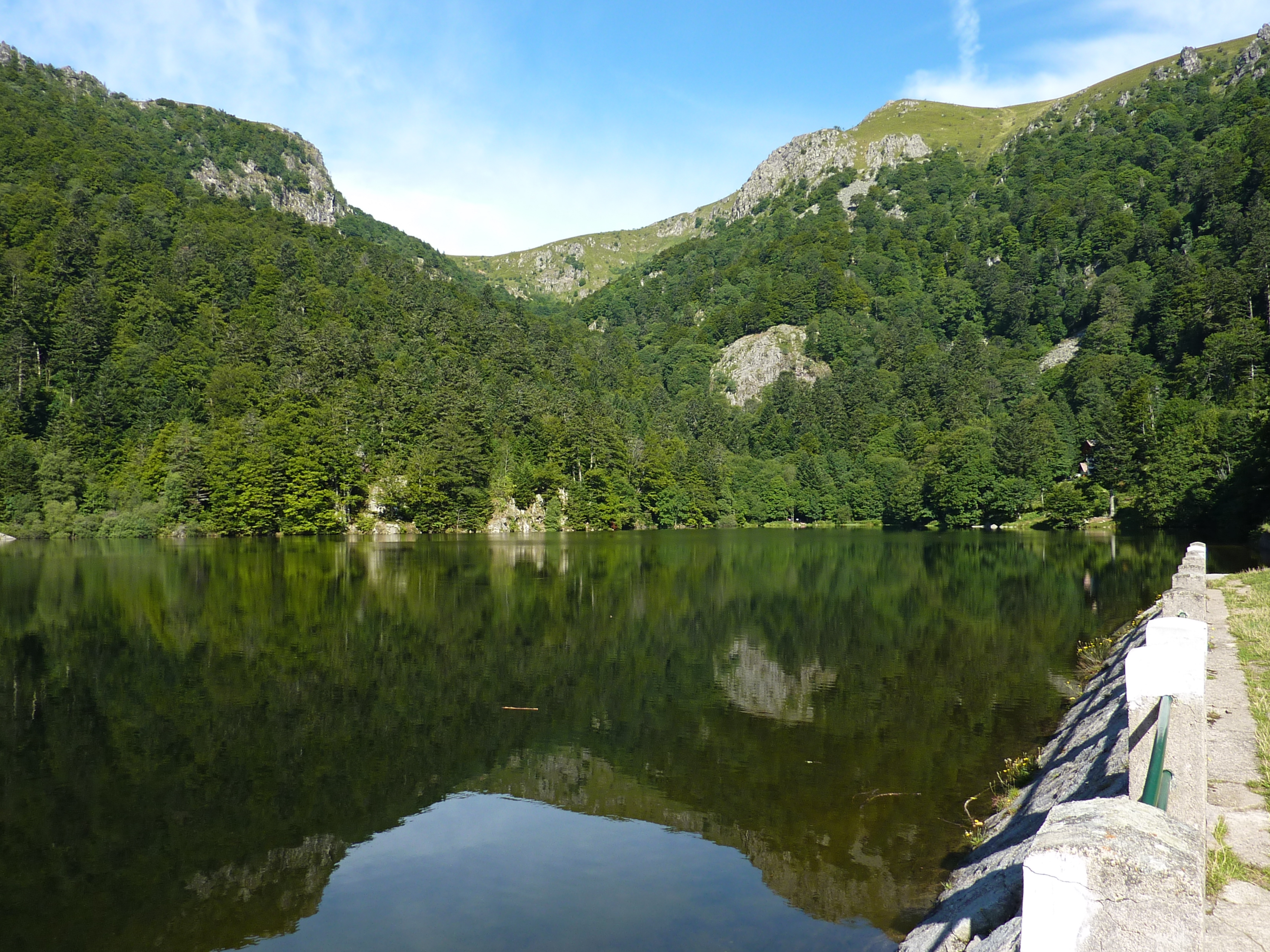 Schiessrothried lake, Haut-Rhin, France